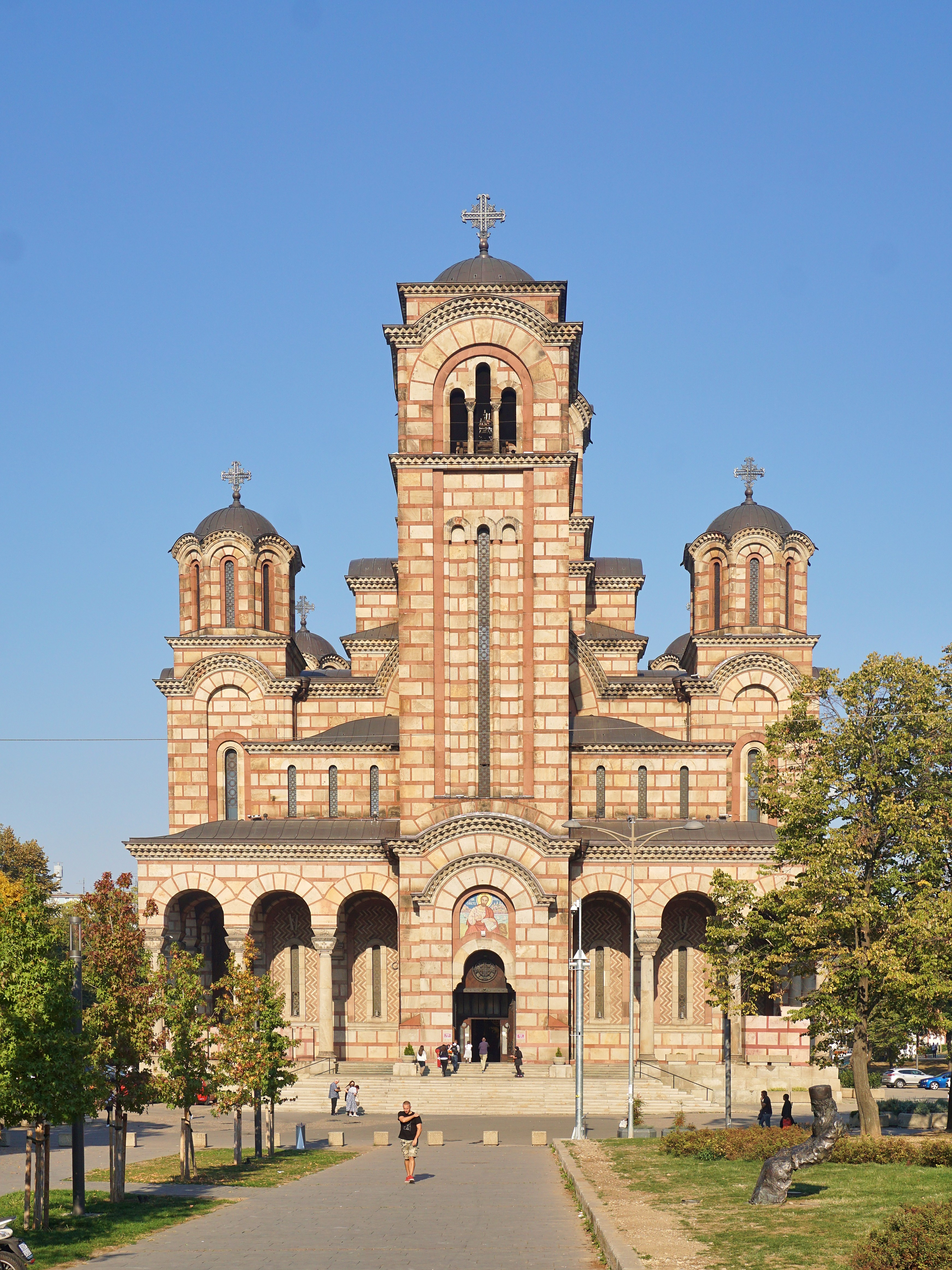 Saint Mark church